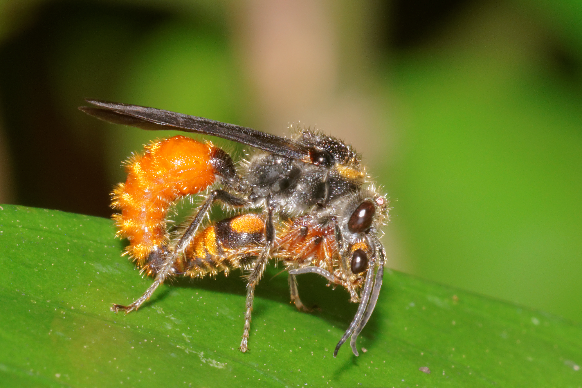 Mutillidae, Velvet ants, are a family of wasps (despite the names) whose wingless females resemble large, hairy ants. Their common name "velvet ant" refers to their dense pile of hair, which most often is bright scarlet or orange, but may also be black, white, silver, or gold. Velvet ants are loners with males generally flying low to the ground seeking the wandering females. In a few species, the male carries the smaller female aloft while mating as seen here. After mating, females will scurry about looking for wasp or bee pupal chambers. Once found, they will enter a nest and use their ovipositor to lay an egg on or near to the host. (ID: InsectIndia)